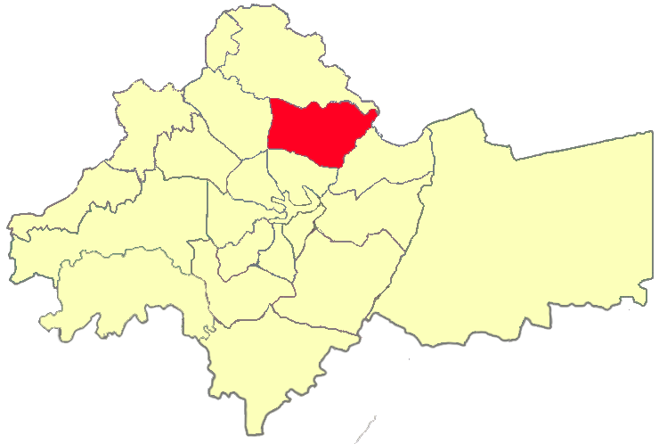 Amman districts